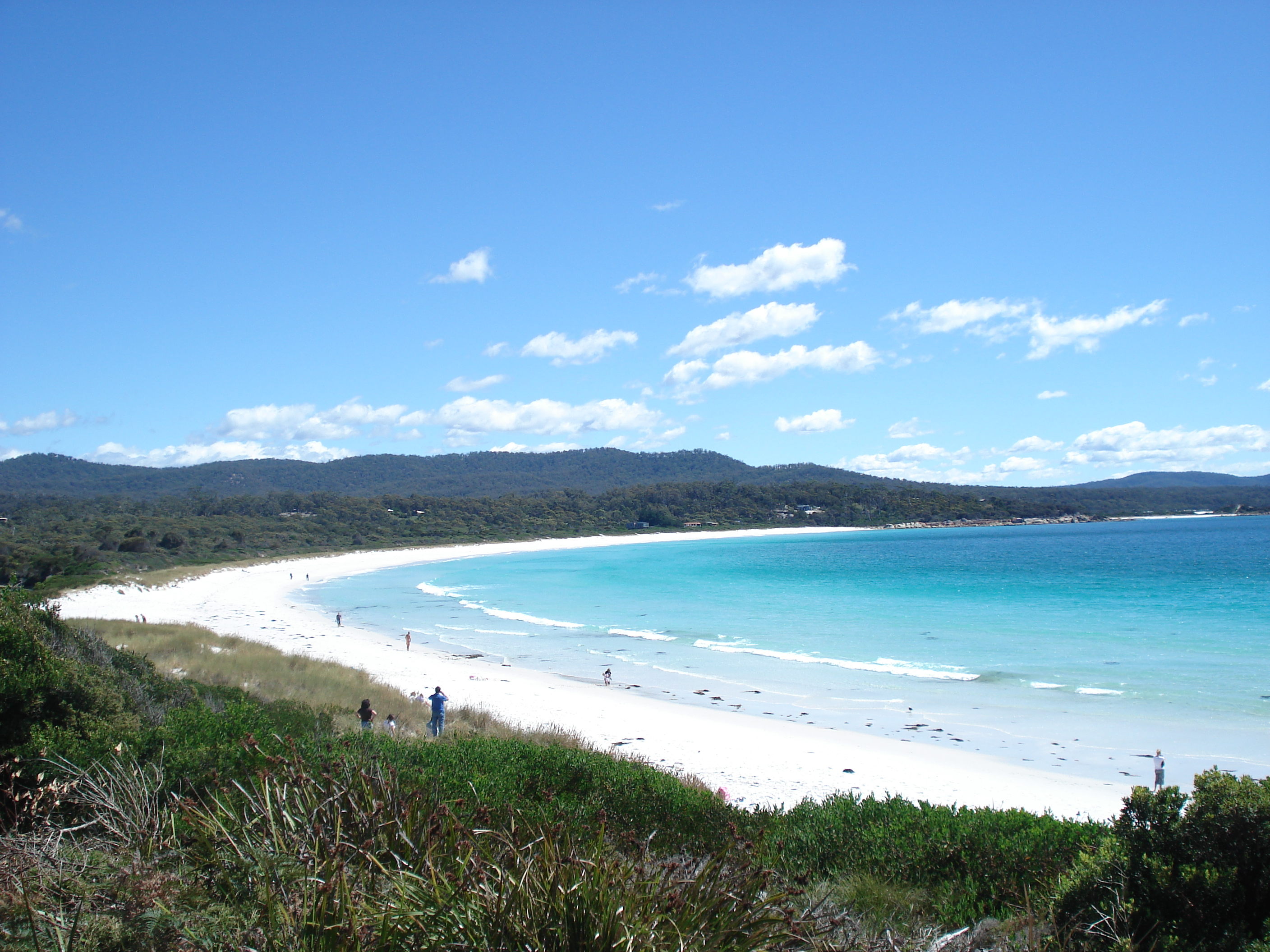 Bay of Fires View